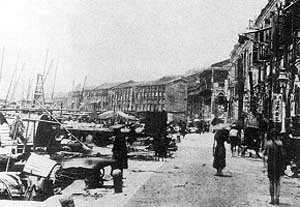 The "O Porto Interior" in Macau, about 1900